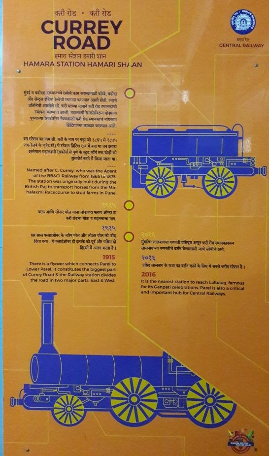 Station banner on Suburban Central Railway, Mumbai, India